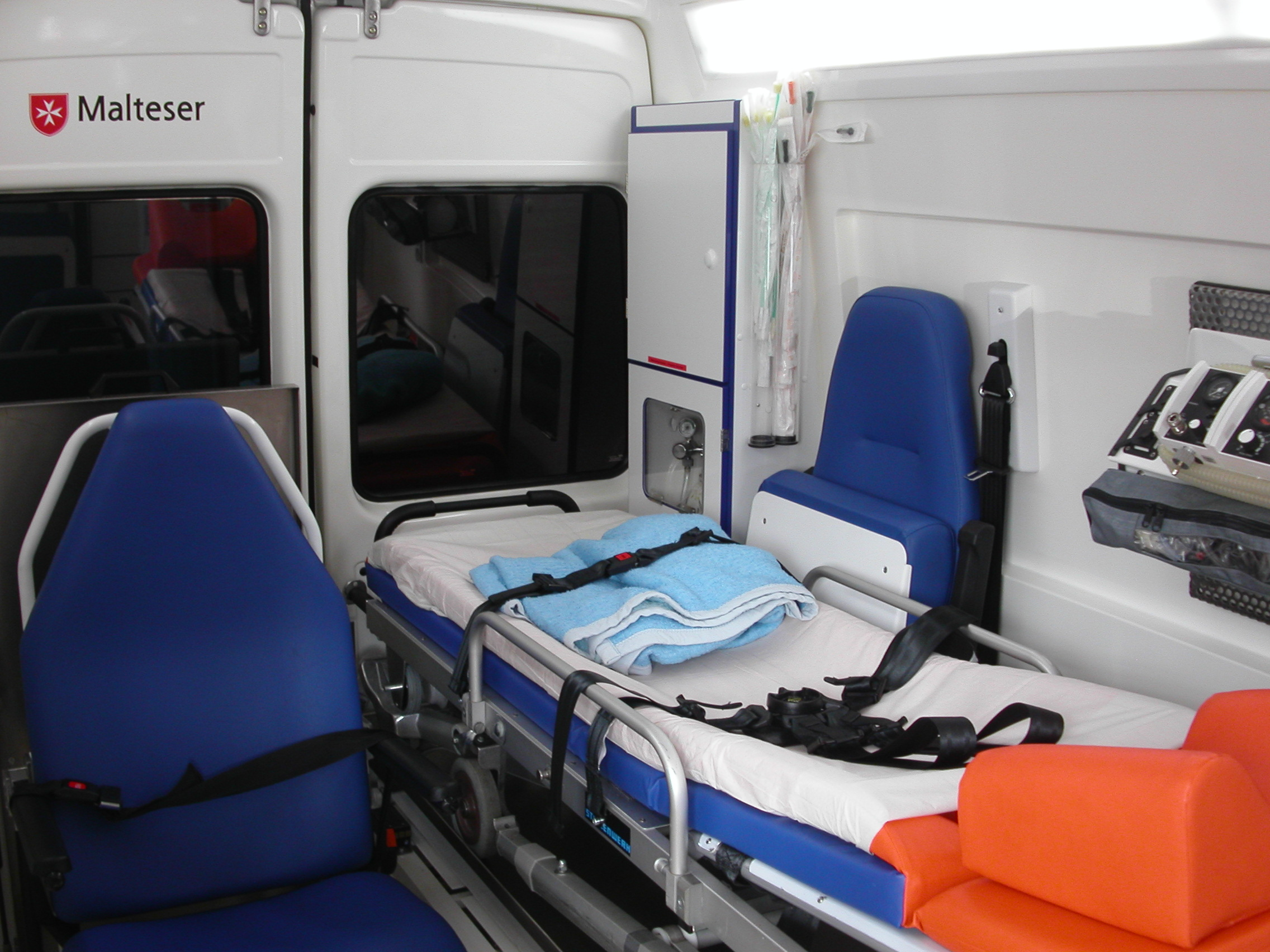 Interior of a german ambulance